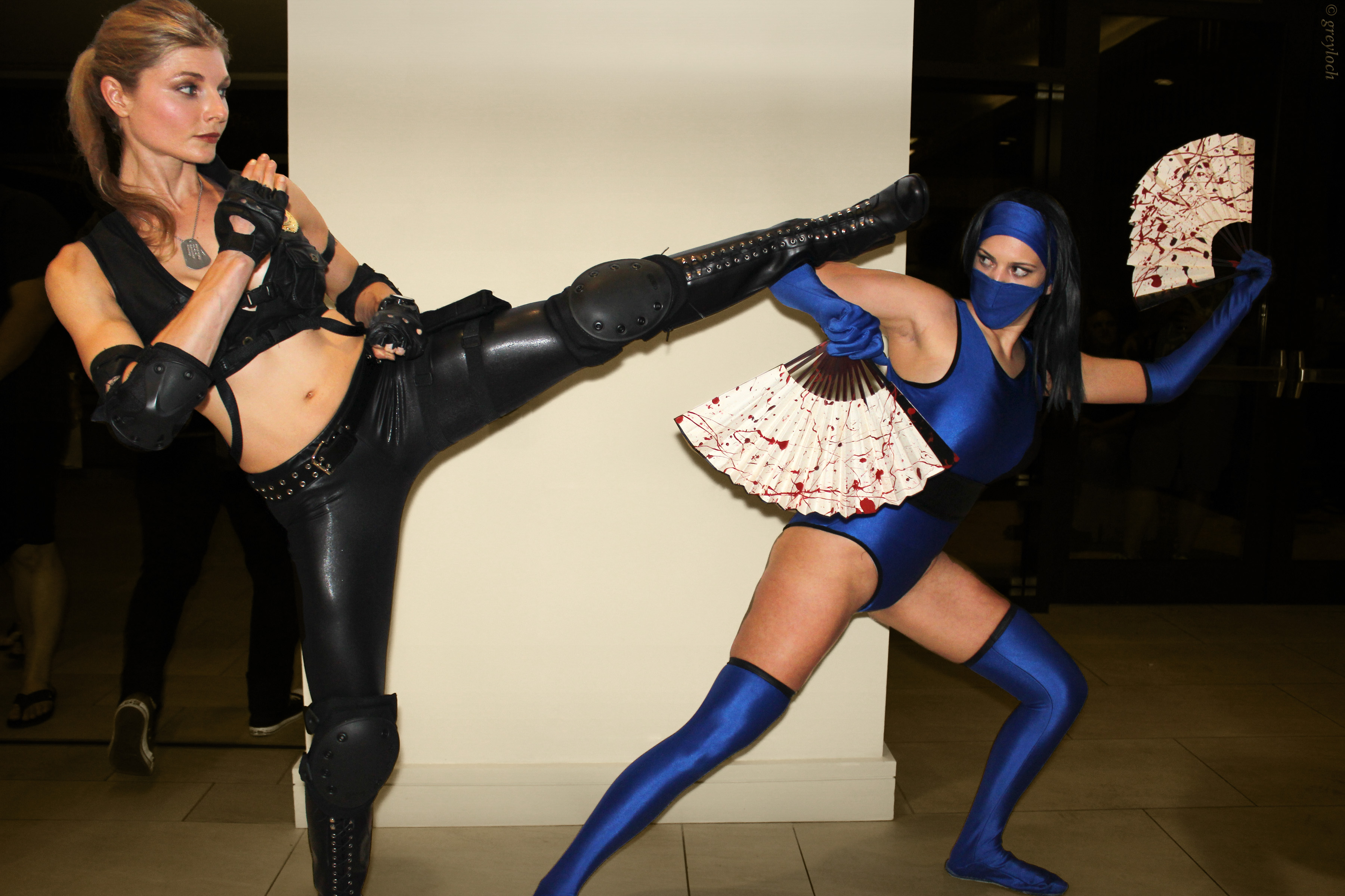 A very nice "staged" action shot of Sonya (L) fighting Kitana (R) on Thursday evening. I was impressed by how long she could keep this pose. O.O!